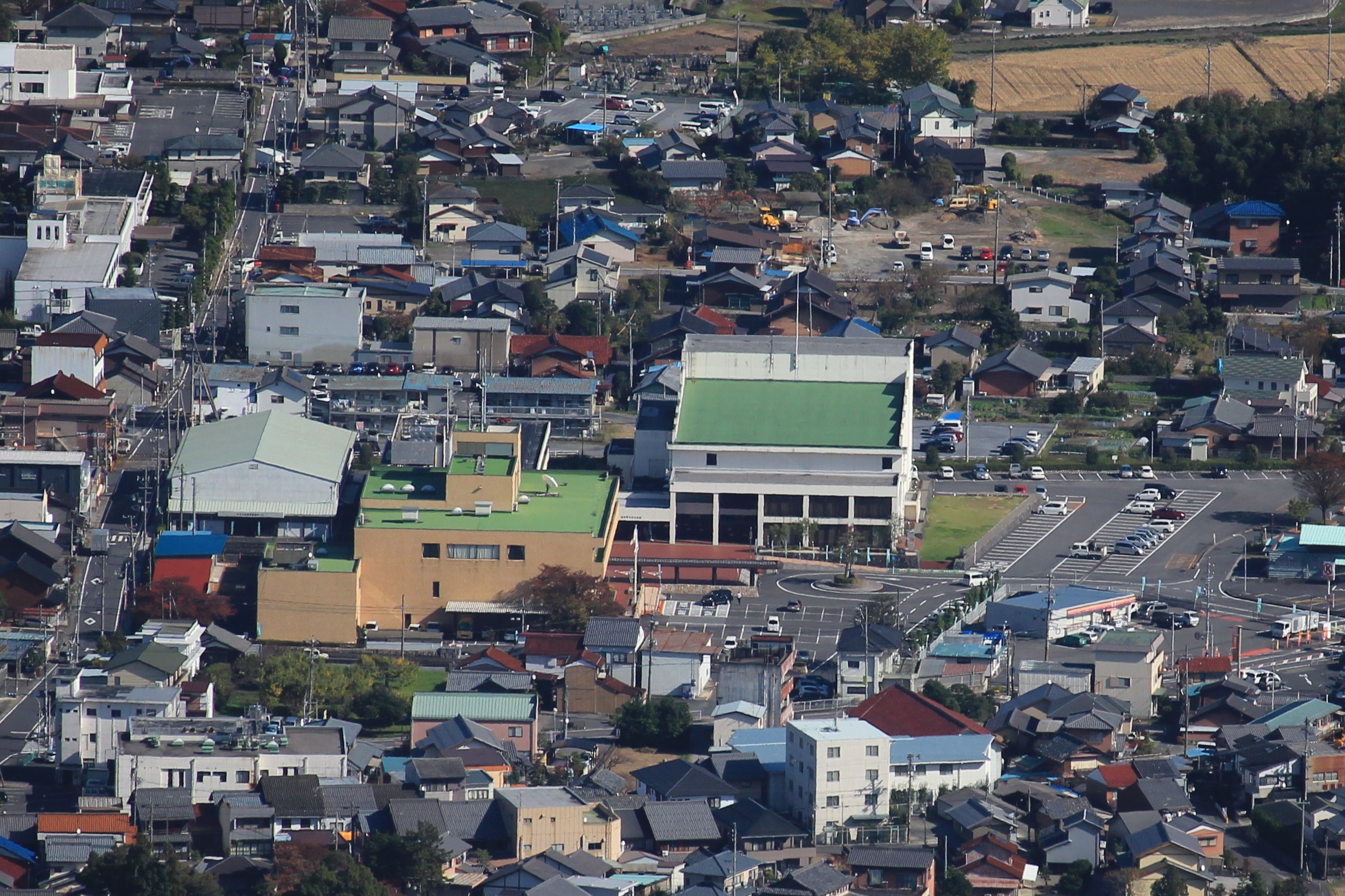 Ikeda town office seen from Mount Ikeda, in Ikeda, Gifu prefecture, Japan.